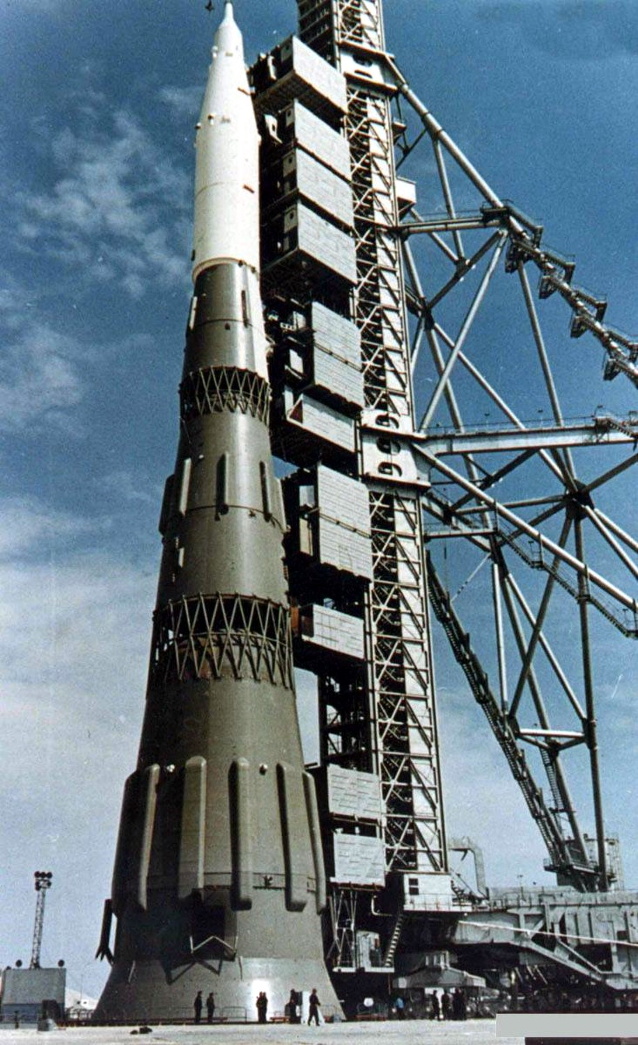 Н-1 1M1 mockup on the launch pad at the Baikonur Cosmodrome in late 1967.